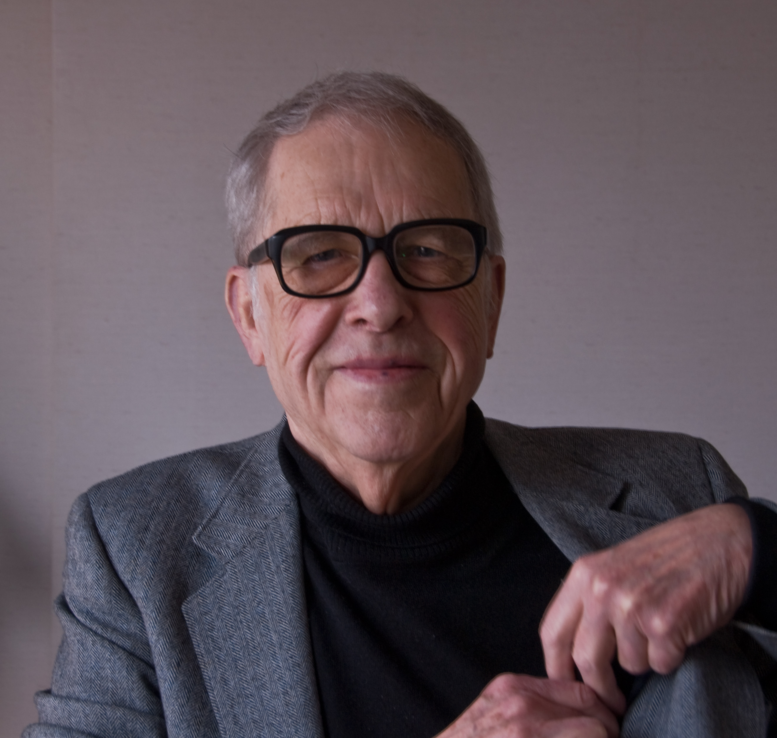 A photo of Donald Richie taken, Japanologist, writer and film critic